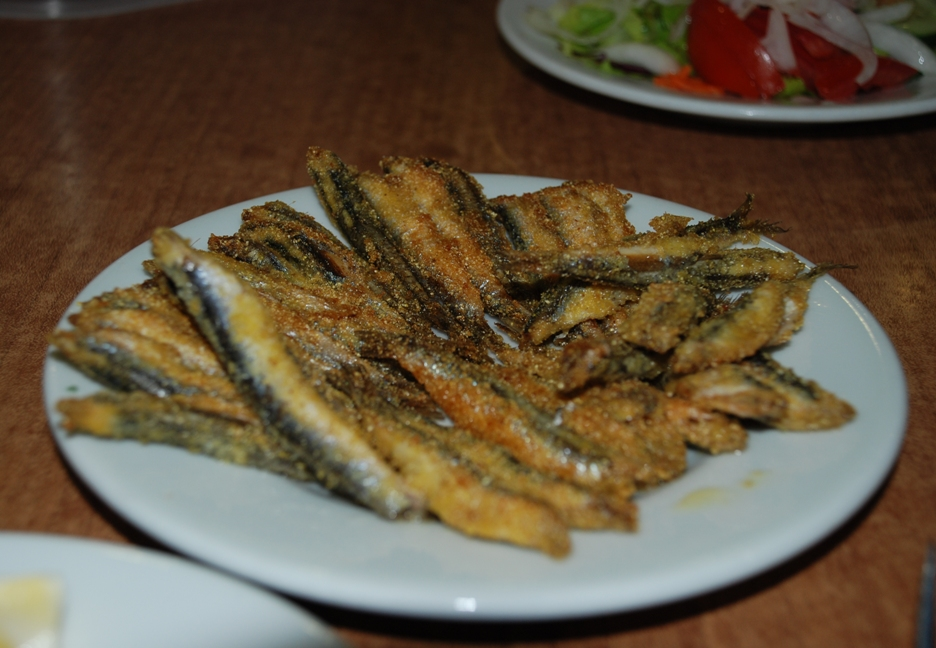 Hamsi in Trabzon